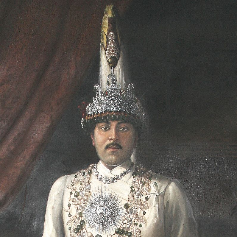 His Majesty King, Tribhuvan Bir Bikram Shah